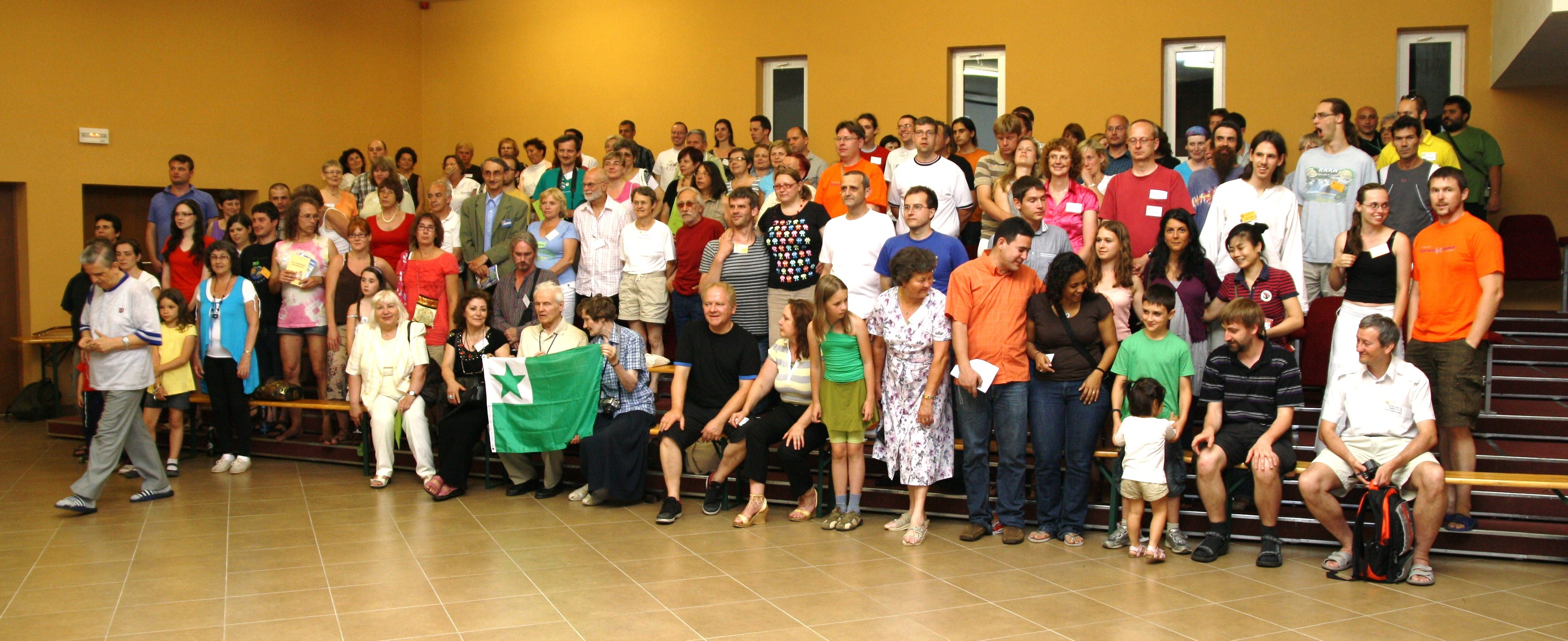 Participants of the Summer Esperanto Study 2010 organized by E@I in Piešťany.